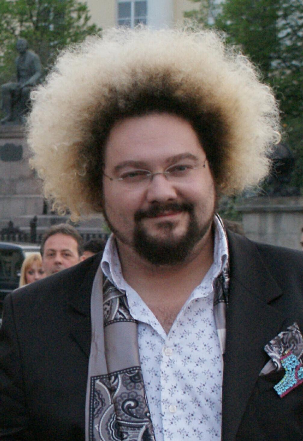 Marko Kon in Moscow, 2009